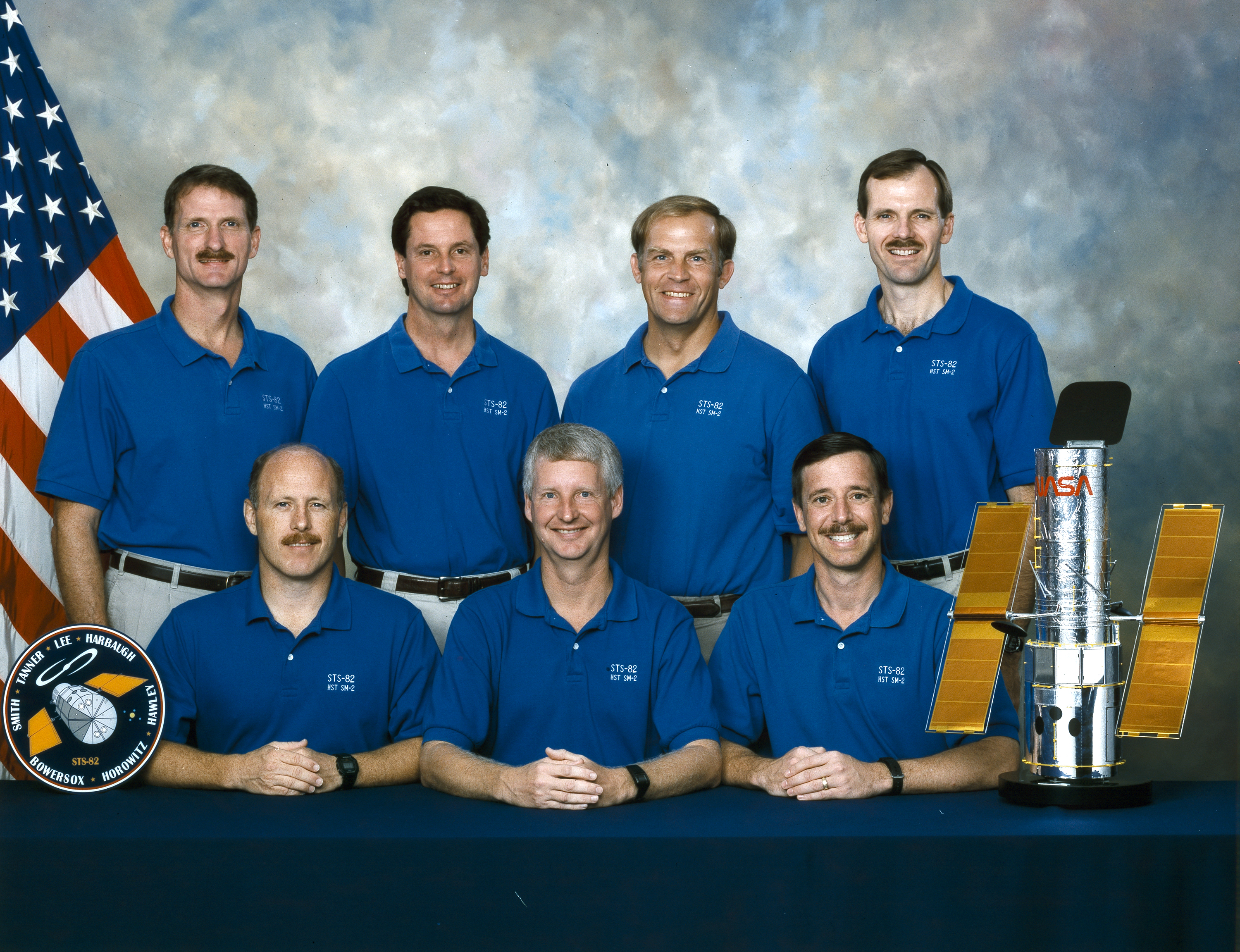 The crew assigned to the STS-82 mission included (seated front left to right) Kenneth D. Bowersox, commander; Steven A. Hawley, mission specialist; and Scott J. Horowitz, pilot. On the back row (left to right) are Joseph R. Tanner, mission specialist; Gregory J. Harbaugh, mission specialist; Mark C. Lee, payload commander; and Steven L. Smith, mission specialist. Launched aboard the Space Shuttle Discovery on February 11, 1997 at 3:55:17 am (EST), the STS-82 mission served as the second Hubble Space telescope servicing mission.